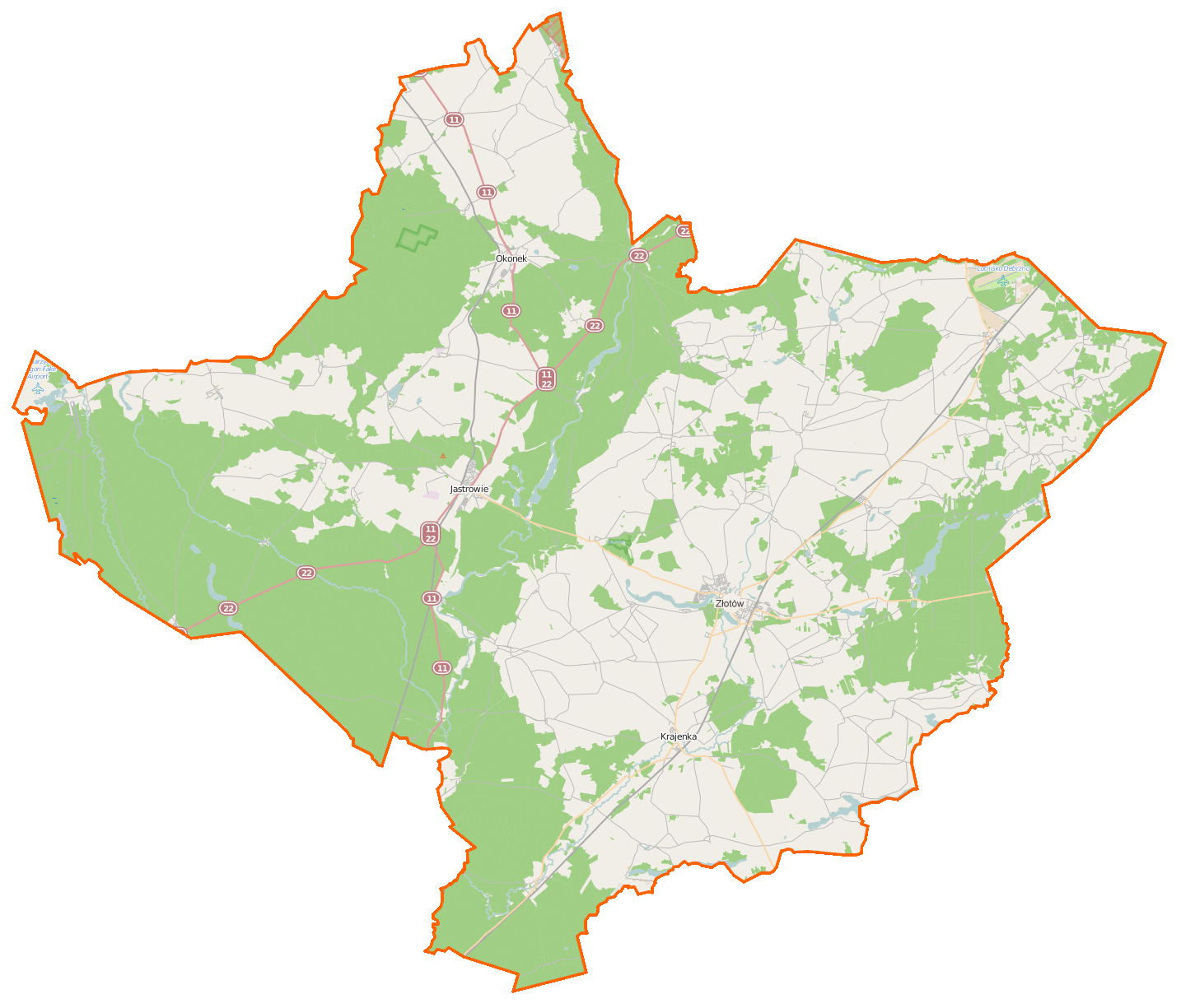 Map of Powiat złotowski, Poland This map of Powiat złotowski was created from OpenStreetMap project data, collected by the community. This map may be incomplete, and may contain errors. Don't rely solely on it for navigation. Border coordinates53.663016.4259←↕→17.410053.1612